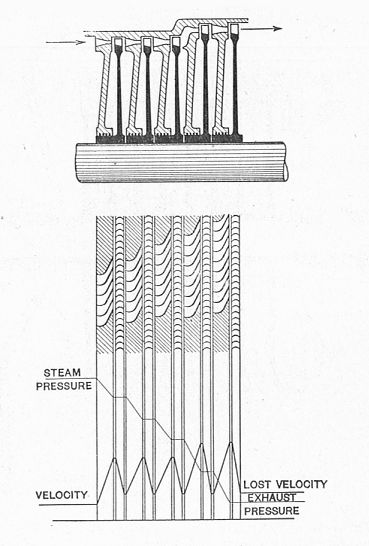 Rateau turbine, pressure - velocity diagram (Heat Engines, 1913).jpg